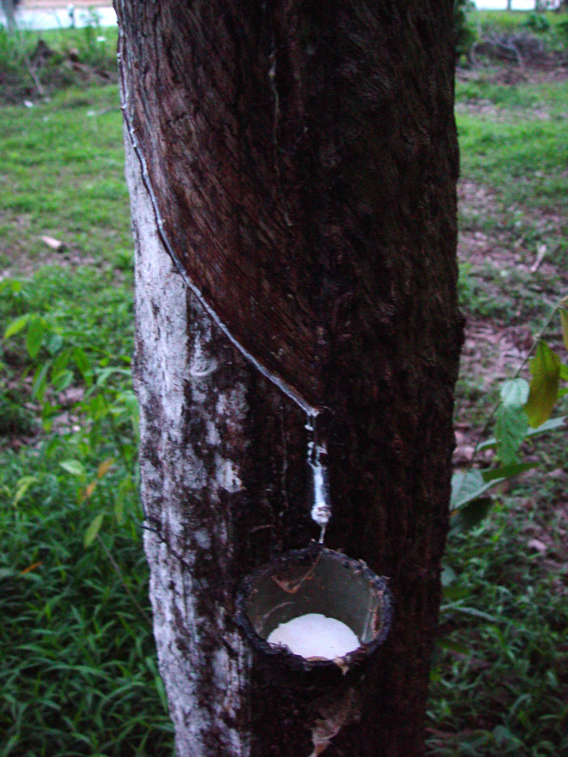 Latex being collected from a Para rubber tree, Hevea brasiliensis. Rubber plantation in Phuket, Thailand.